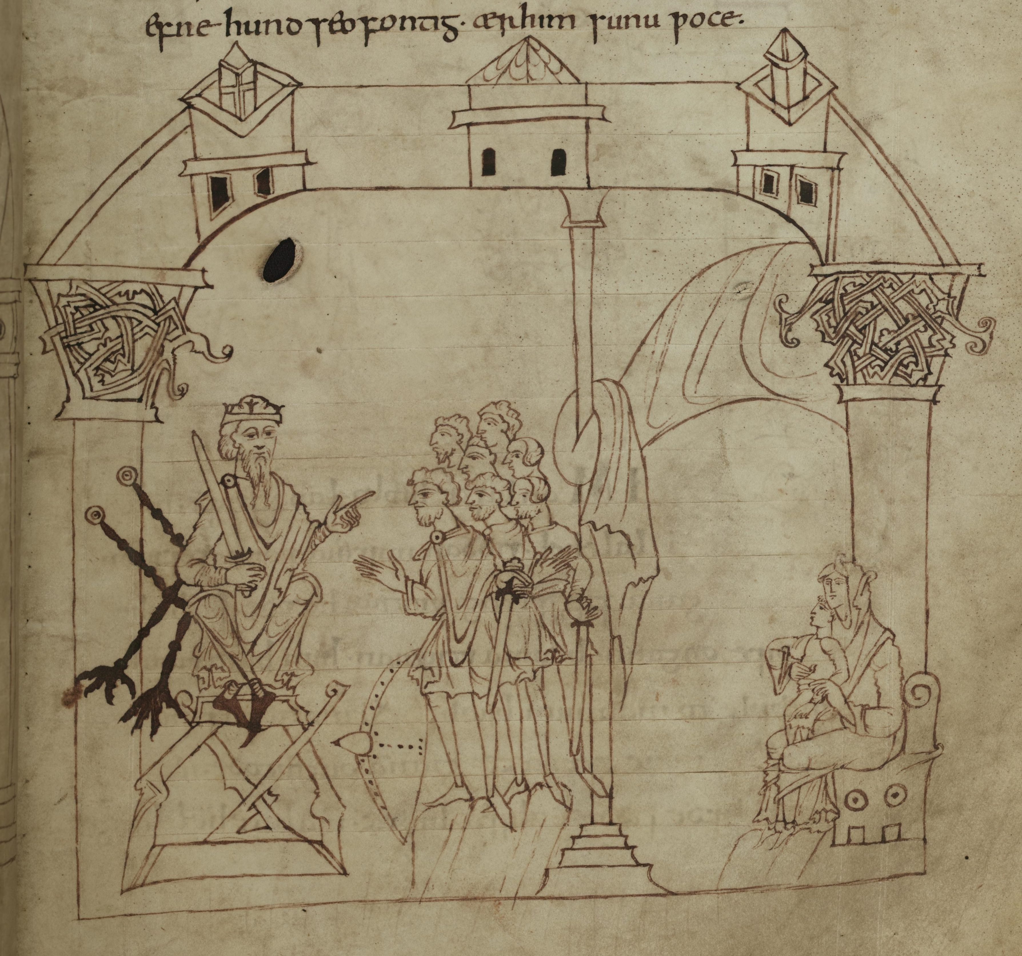 An illustration of patriarch Cainan from the Caedmon manuscript.